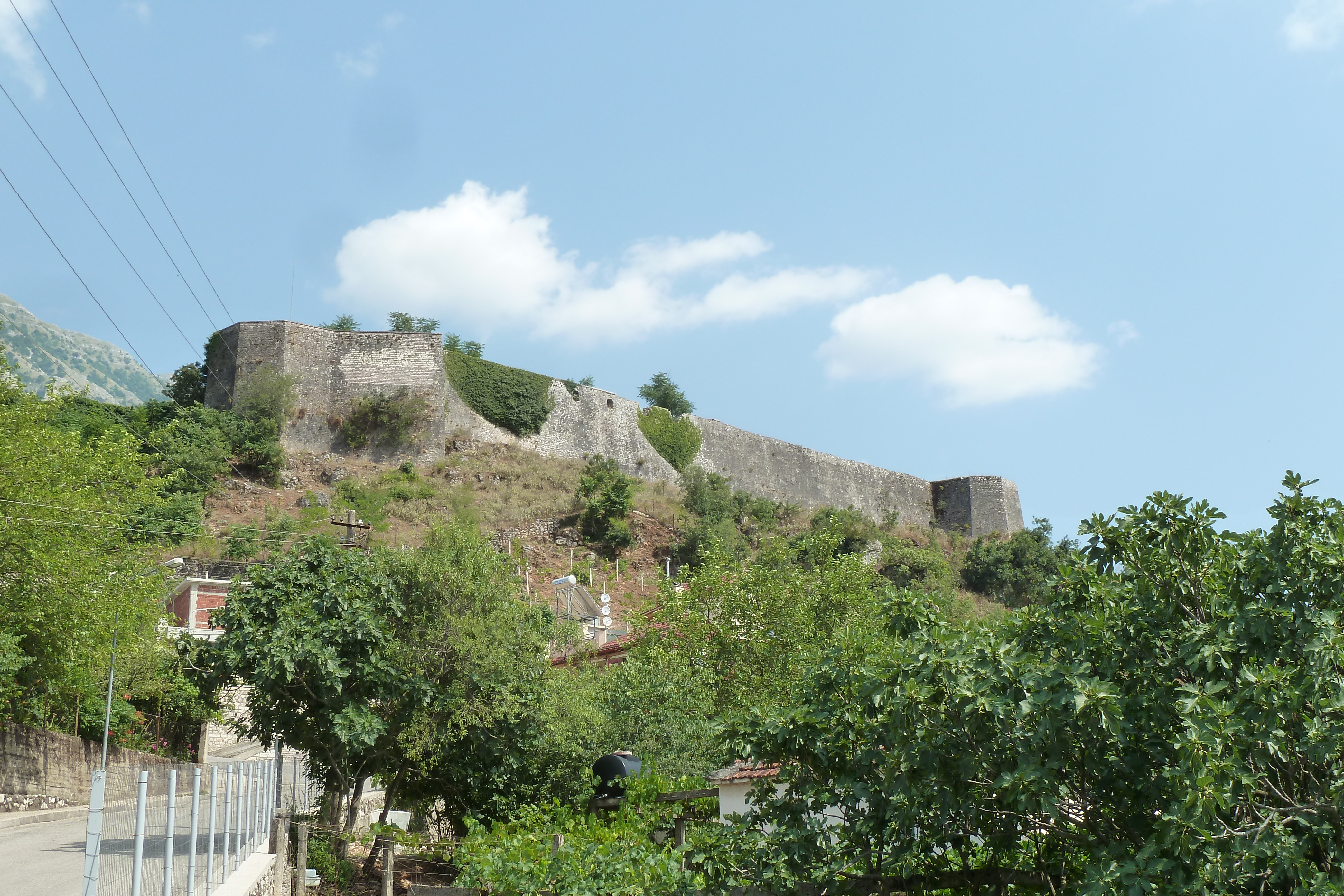 Exterior of the Castle of Libohova seen from north.